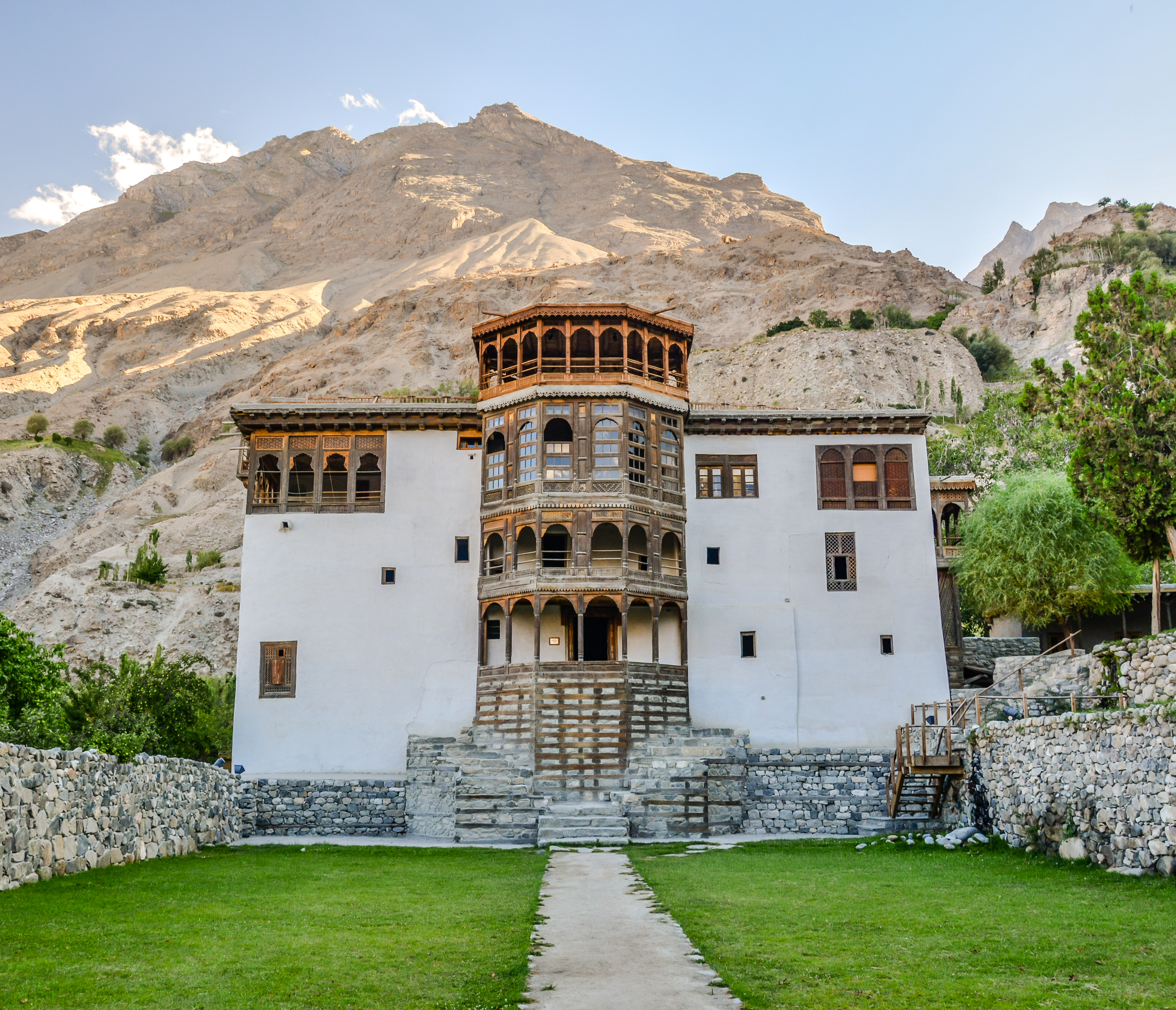 Khaplu Palace This is a photo of a monument in Pakistan identified as the GB-7